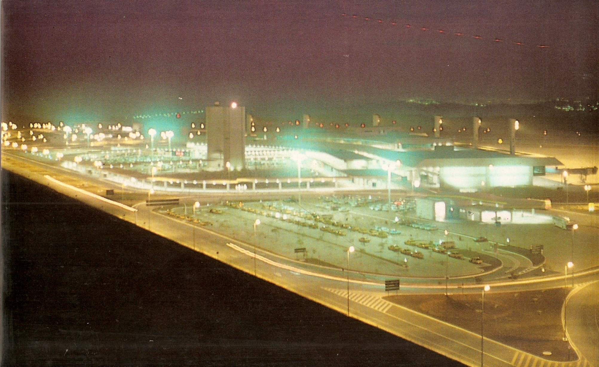 Aeroporto